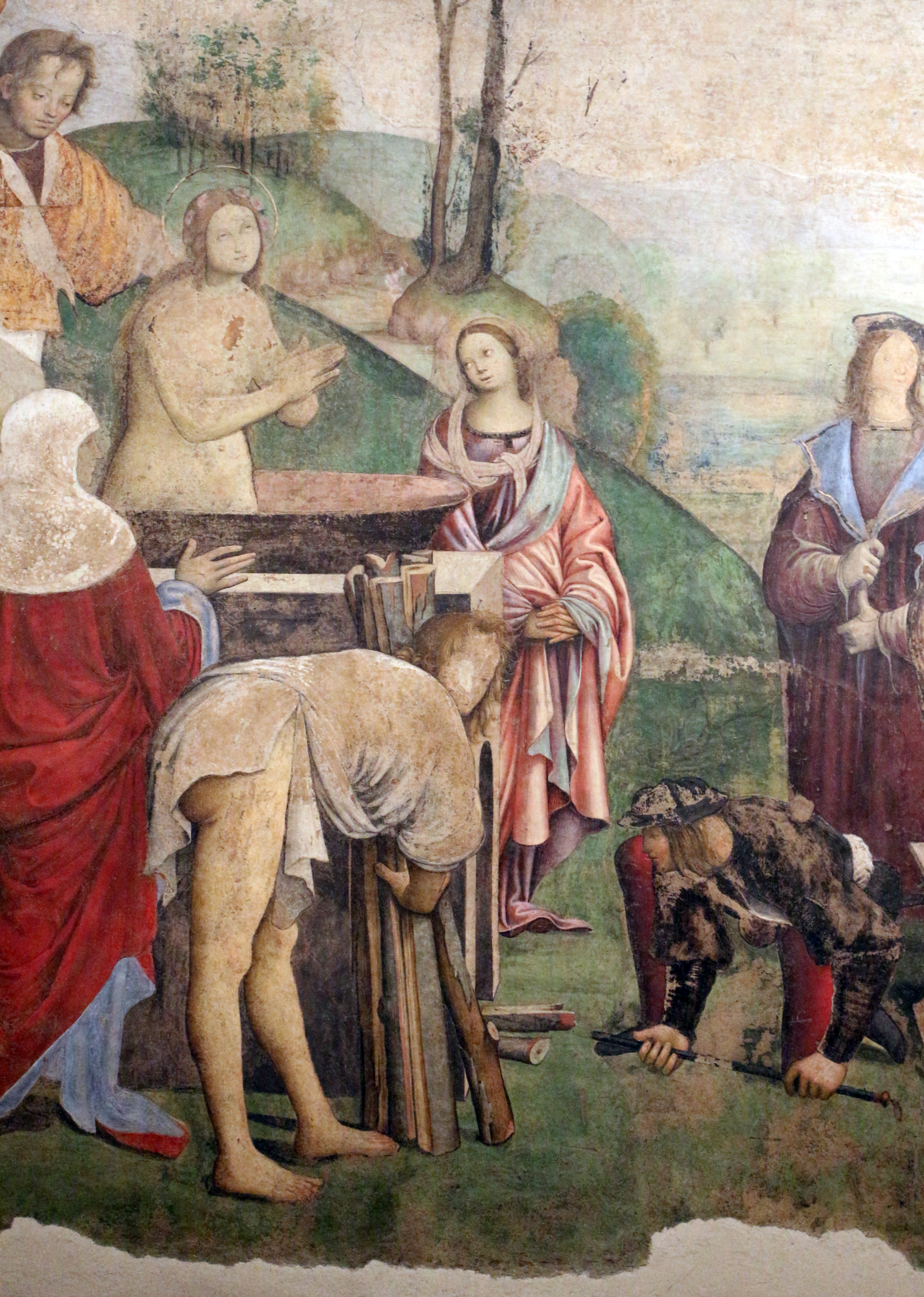 Santa Cecilia oratory (Bologna)